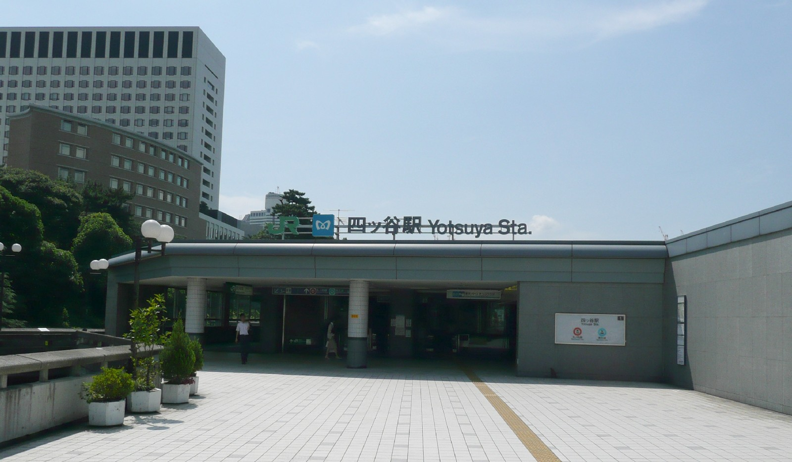 Akasaka entrance of Yotsuya Station in Tokyo